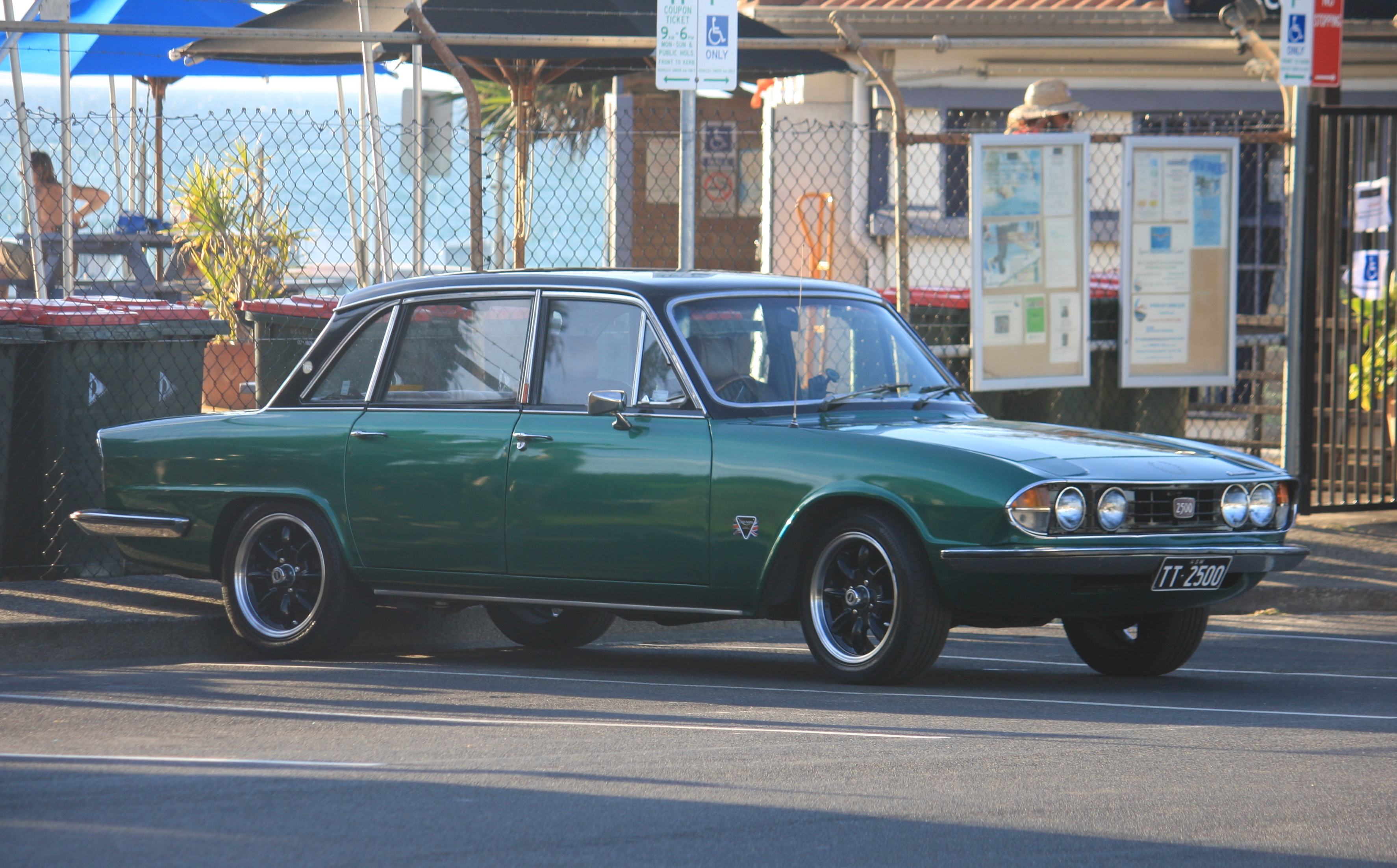 Triumph car, Byron Bay NSW - Australia, April 22 2014.